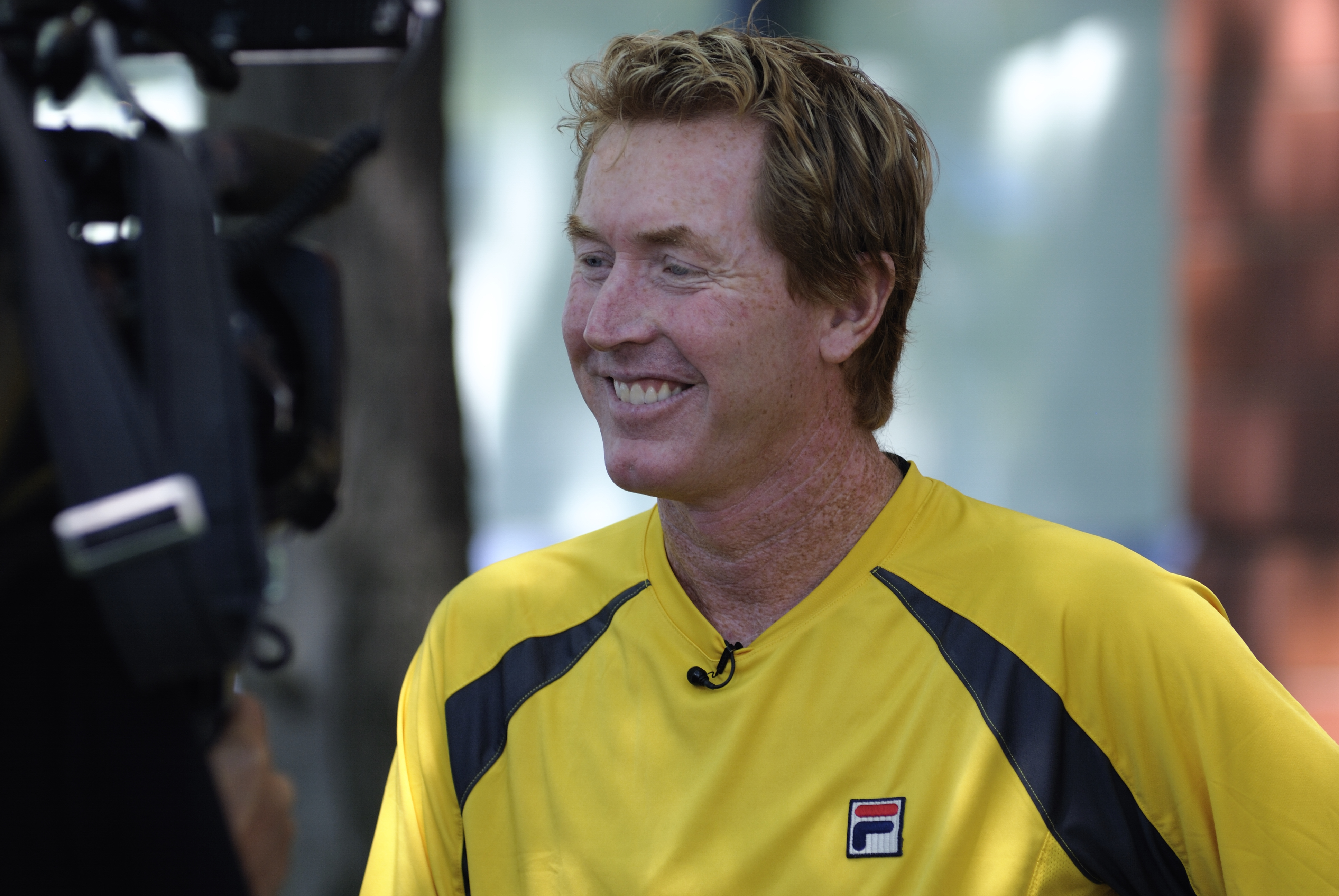 Woody at the 2011 US Open